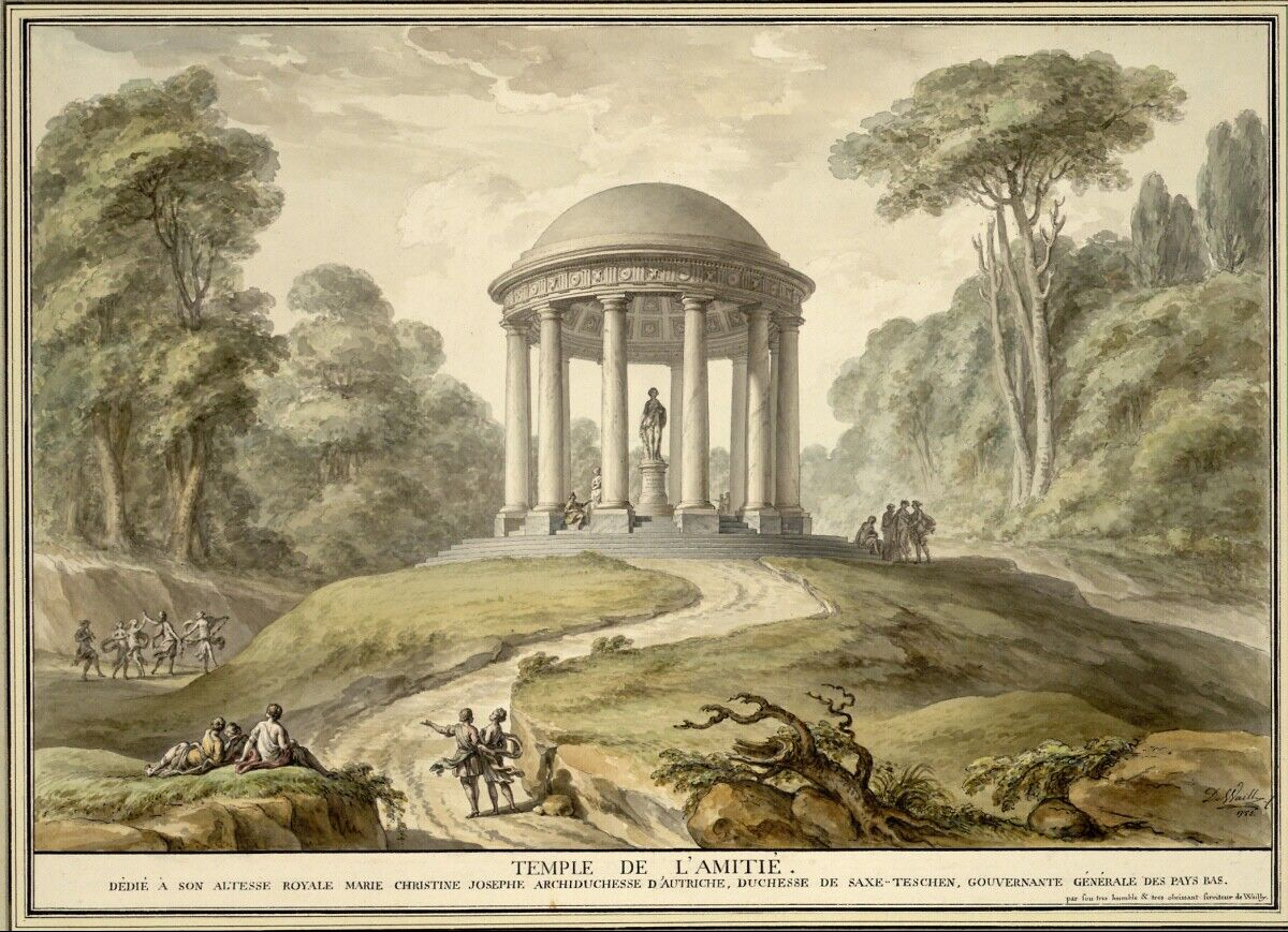 Project for a Friendship Temple in Laeken by Charles De Wailly (Graphische Sammlung, Albertina, Vienna)